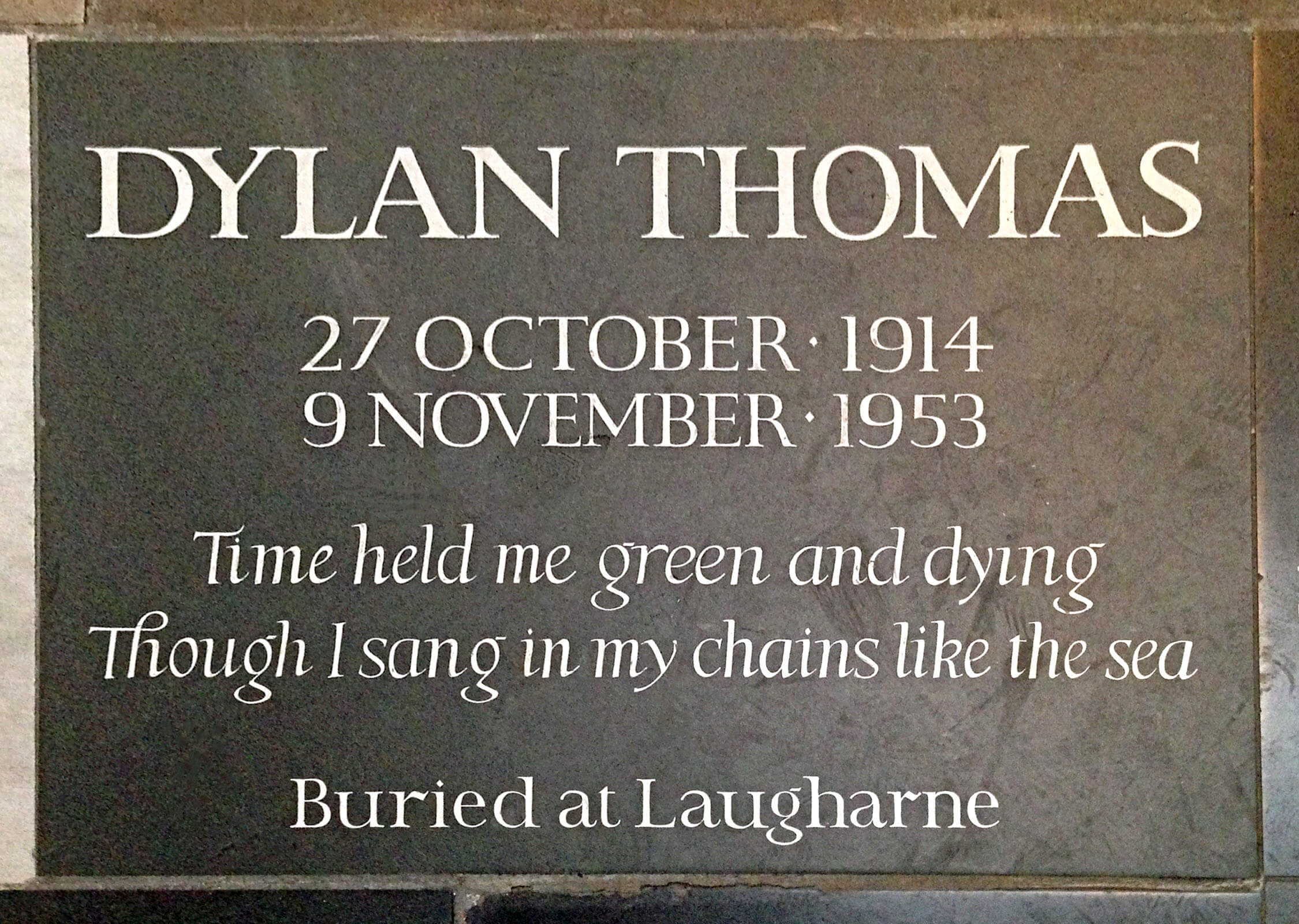 The plaque, in memory of Dylan Thomas, laid in Poets' Corner, Westminster Abbey